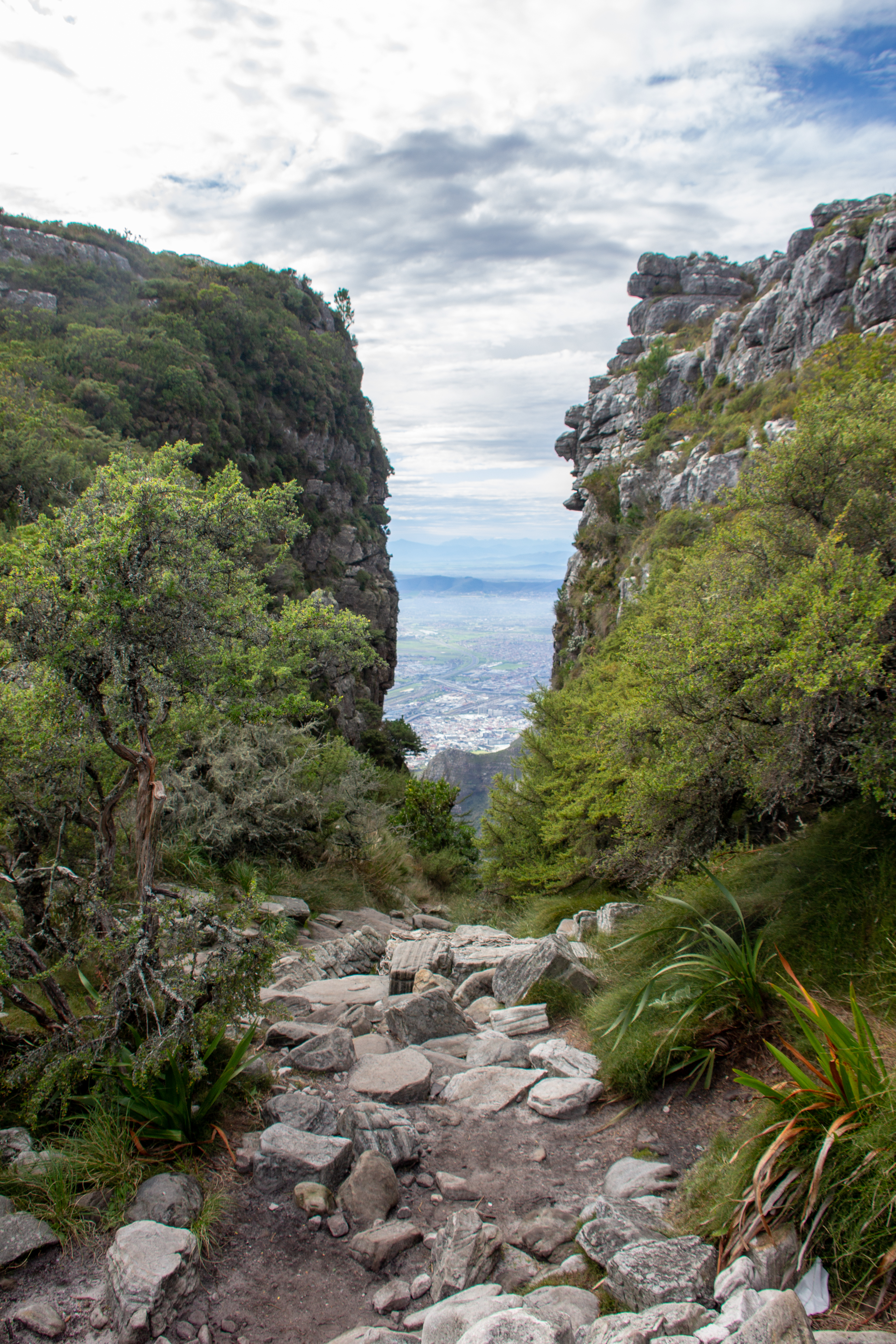 Table Mountain, Cape Town